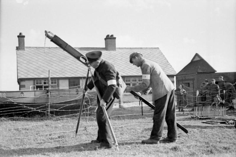 Lifesaving Apparatus Drill. 1940, at An East Coast Coastguard Station. Every Coastguard Station Is Fitted With Lifesaving Apparatus Which Is Fitted With Rockets and Breeches Buoy Equipment and Manned by Local Volunteers, Most of Whom Are Farmers, Fishermen and Labourers From the Nearest Village. during An Lsa Drill. The rocket tripod is placed into position.